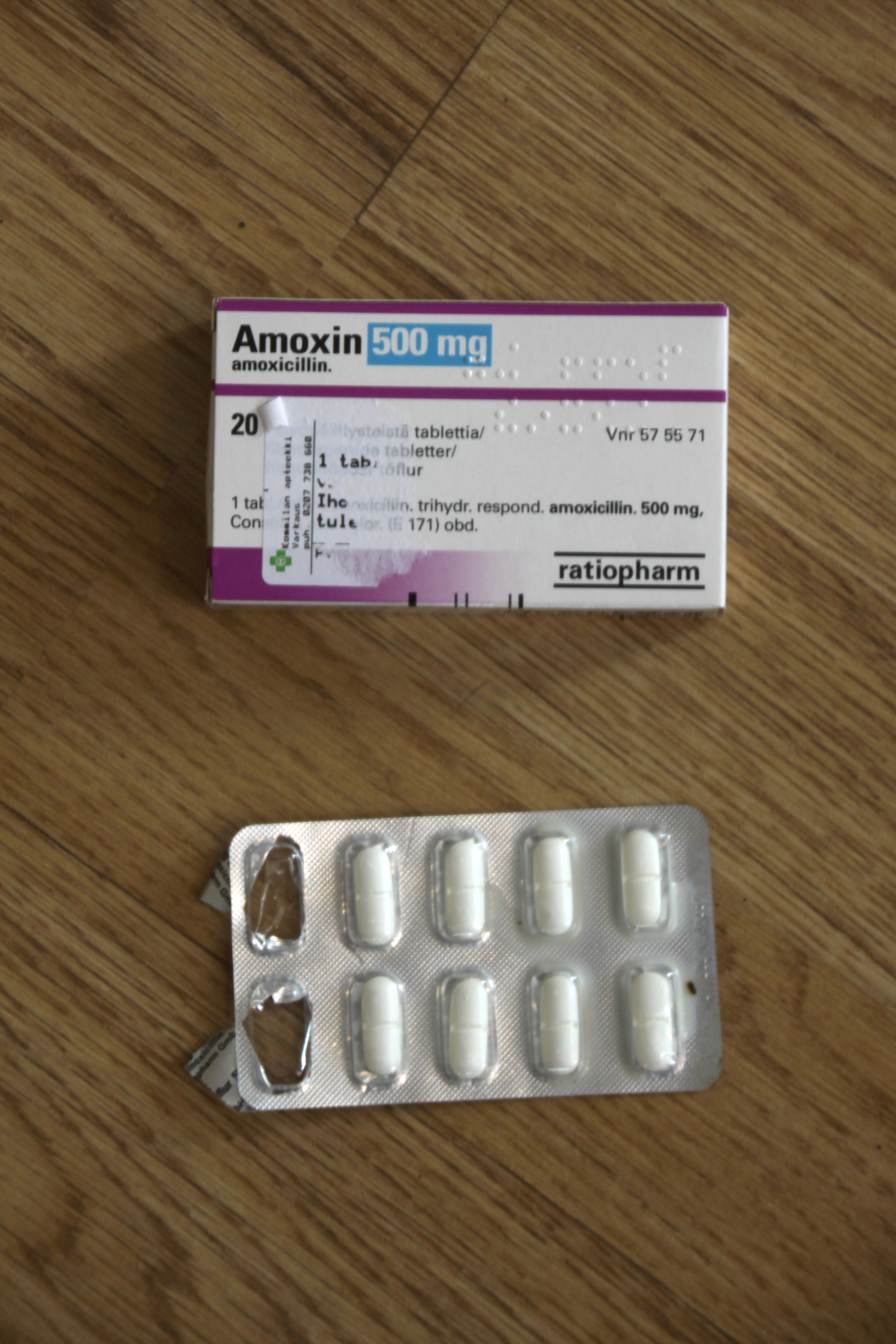 Amoxin (Amoxicillin) 500 mg -medicine